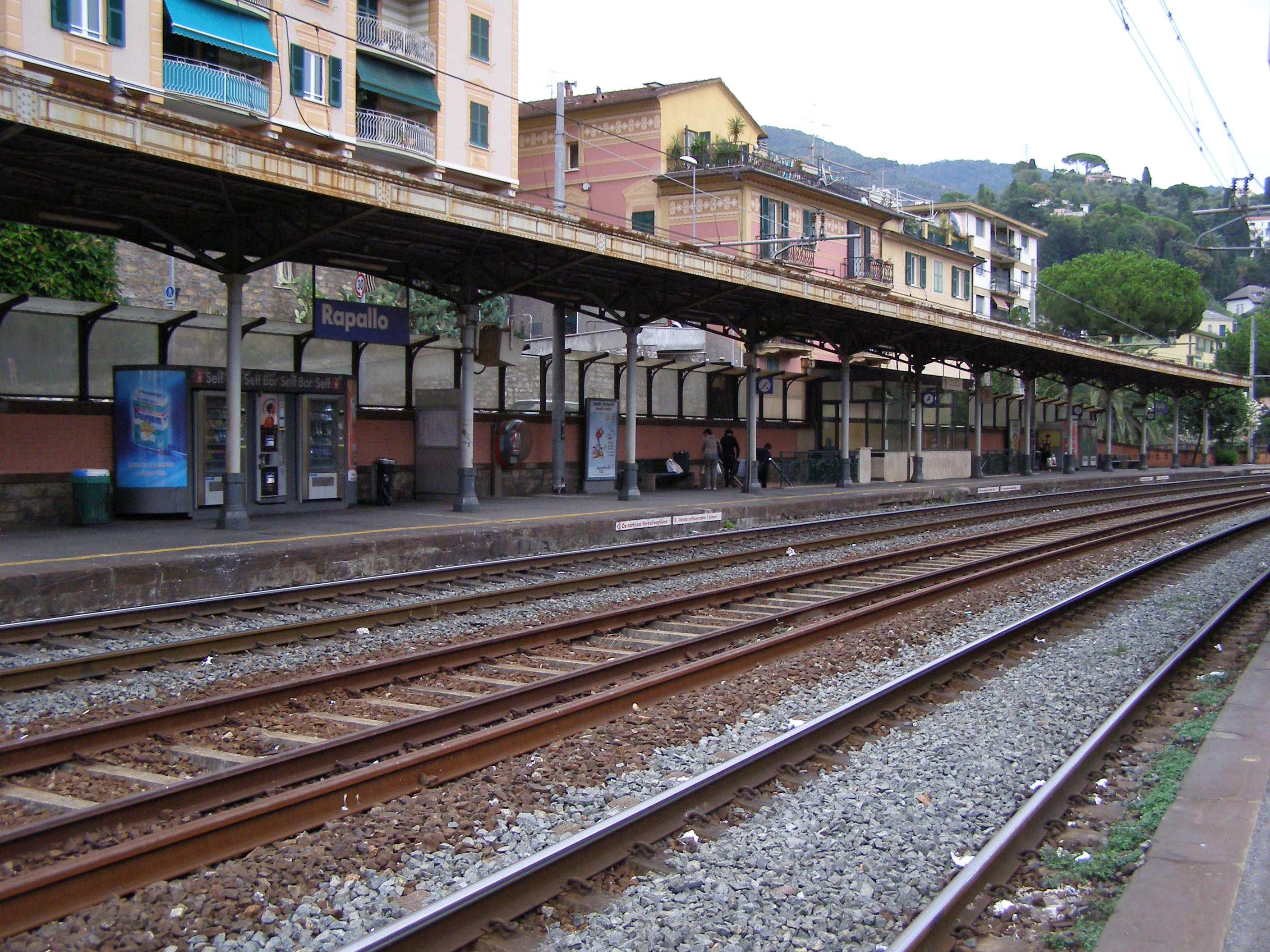 Rapallo - railway station